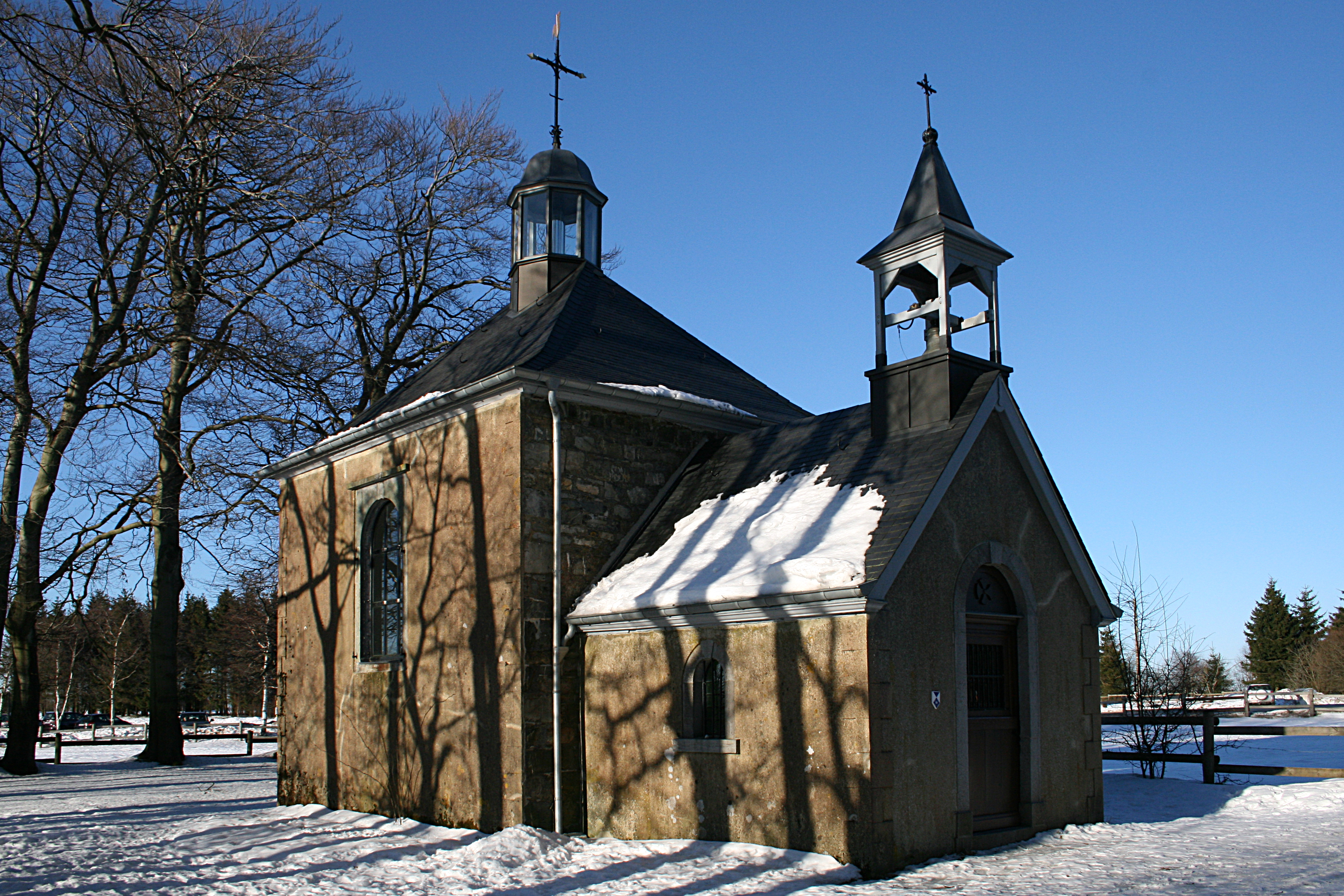 Xhoffraix (Belgium), Baraque Michel. – The Chapelle Fischbach (1830-1831).